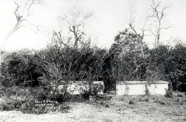 Copyright expired, Public domain image of the Grave of Frederick Augustus Hely, located in Wyoming, NSW, Australia.